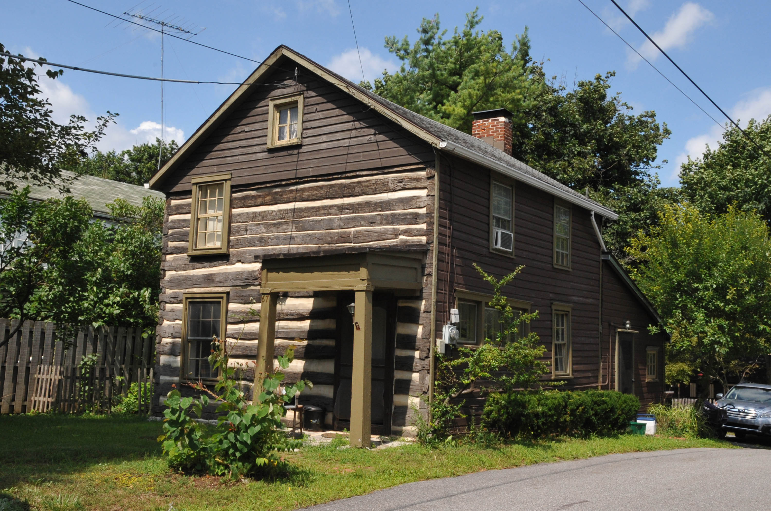 THIS LOG RESIDENCE DATES FROM 1795 AND IS THE OLDEST BUILDING IN NEWVILLE